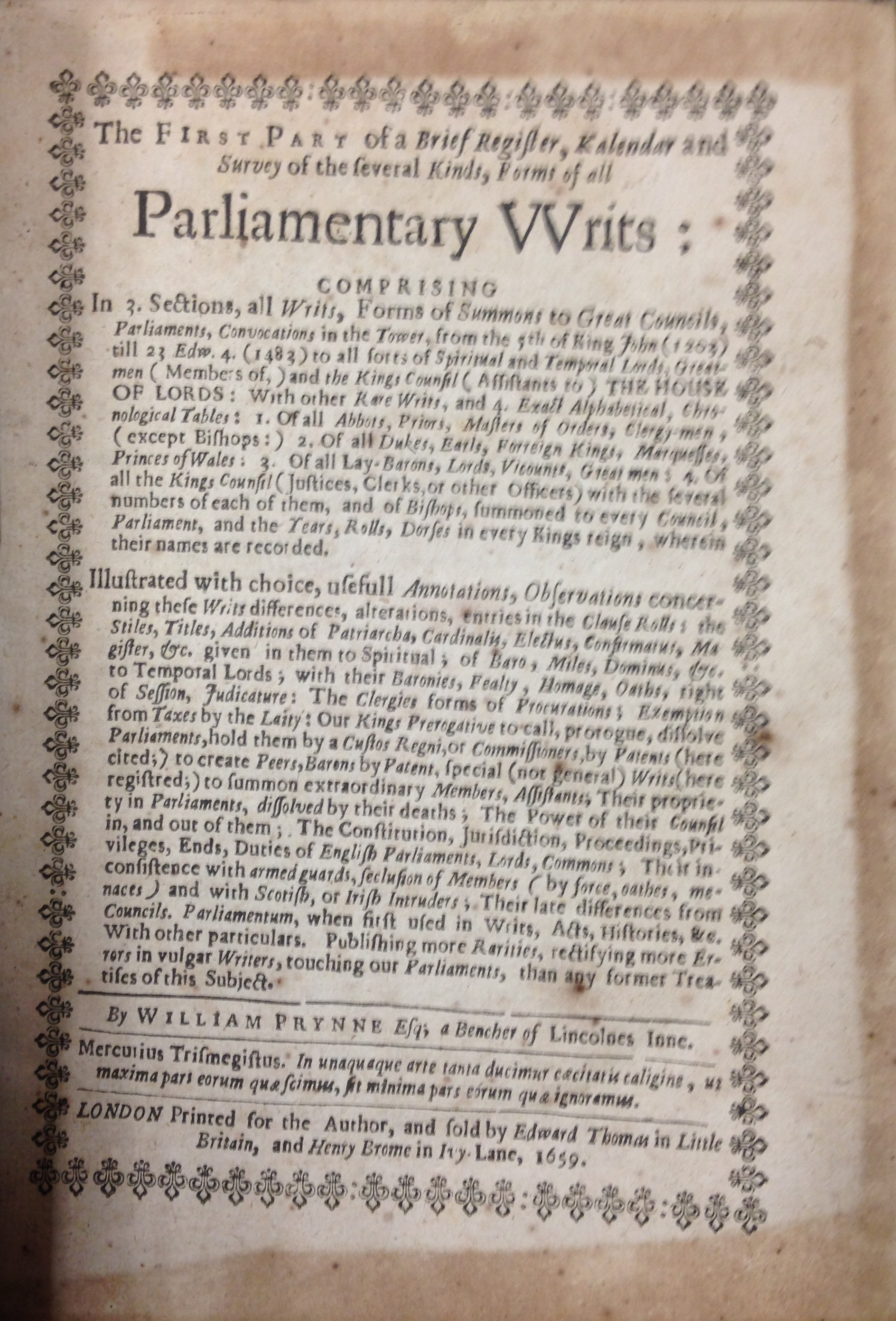 Title page of William Prynne (1659) The first part of a brief register, kalendar and survey of the several kinds, forms of all parliamentary vvrits: comprising in 3. sections, all writs, forms of summons to great councils, parliaments, convocations in the Tower, from the 5th of King John (1203) till 23 Edw 4. (1483) to all sorts of spiritual and temporal Lords, greatmen (members of,) and the Kings counsil (assistants to) the House of Lords: with other rare writs, and 4. exact alphabetical, chronological tables: 1. Of all abbots, priors, masters of orders, clergy-men, (except bishops:) 2. Of all dukes, earls, forreign kings, marquesses, princes of Wales: 3. Of all lay-barons, lords, vicounts, great men: 4. Of all the Kings counsil (justices, clerks, or other officers) with the several numbers of each of them, and of bishops, summoned to every council, parliament, and the years, rolls, dorses in every kings reign, wherein their names are recorded. Illustrated with choice, usefull annotations, observations concerning these writs differences, alterations, entries in the clause rolls: the stiles, titles, additions of patriarcha, cardinalis, electus, confirmatus, magister, &c given in them to spiritual; ... With other particulars. Publishing more rarities, rectifying more errors in vulgar writers, touching our parliaments, than any former treatises of this subject. By William Prynne Esq; a bencher of Lincolnes Inne (1st ed.), London: Printed for the author, and sold by Edward Thomas in Little Britain, and Henry Brome in Ivy-Lane OCLC: 83751432.